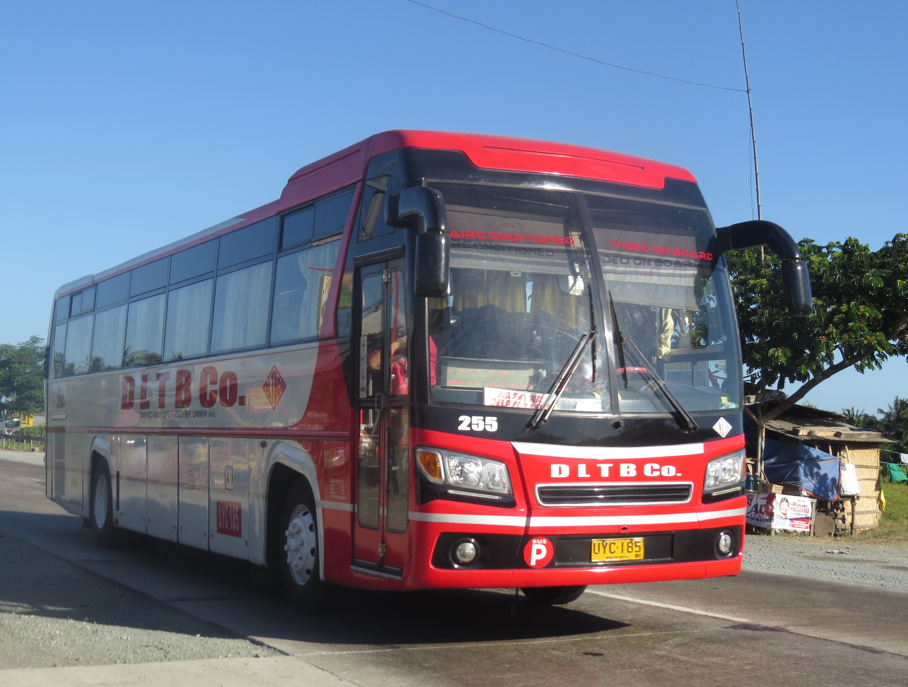 operated by DLTBCo.